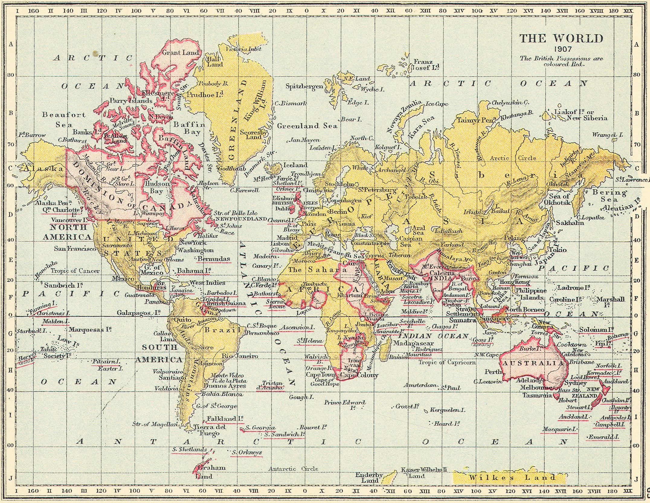 The World in 1907. "The British Possessions are coloured Red"